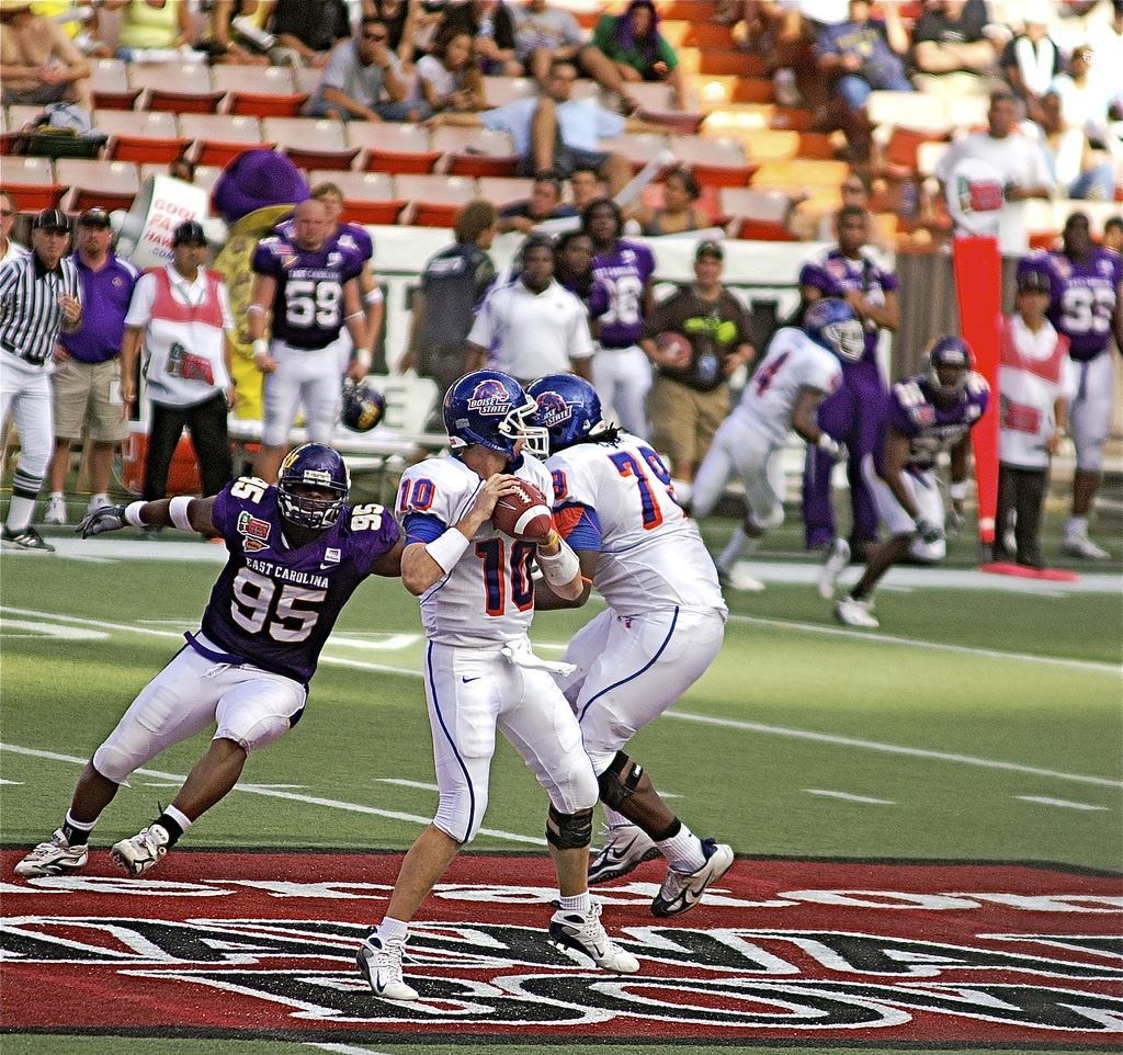 Boise State University vs East Carolina University - Taylor Tharp